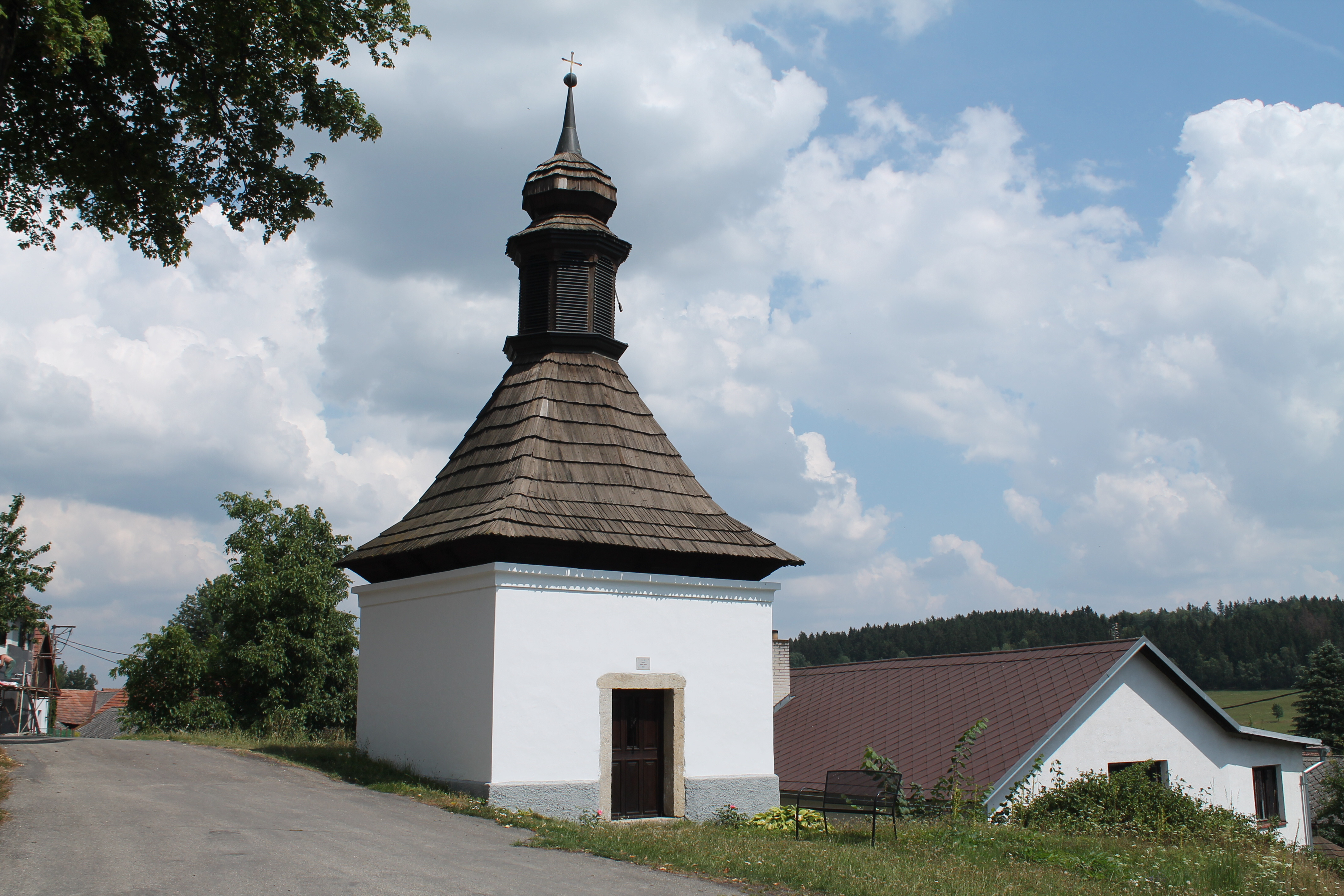 Bell tower, Hojkov, Jihlava District, Czech Republic